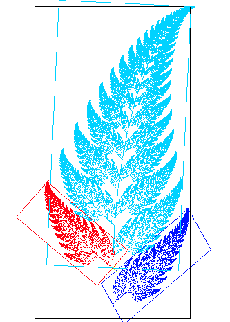 Drawing explaining fractal fern IFS; IFS stands for «Iterated Function Systems».